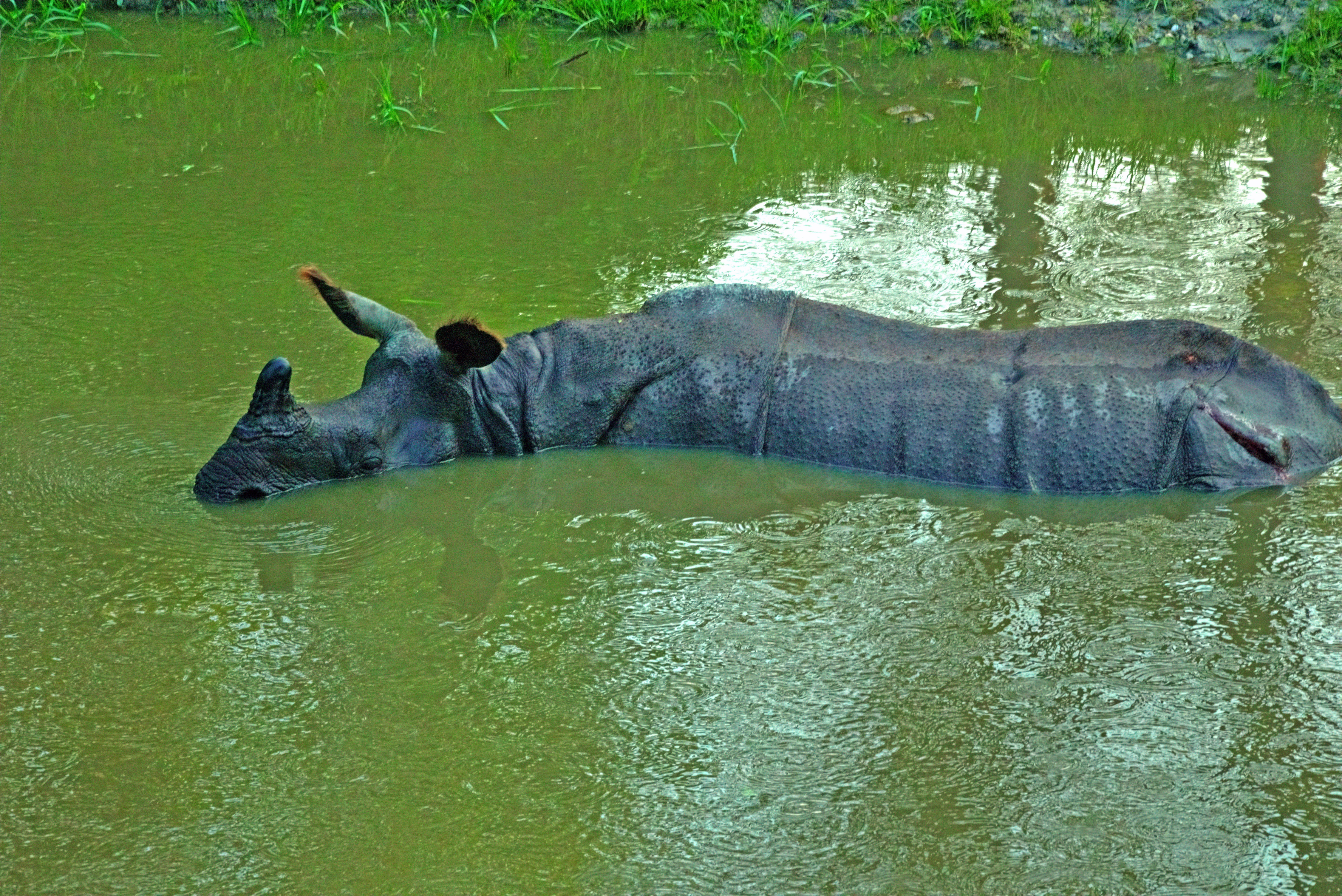 This is a photo of a rhino at Jaldapara. The rhino was resting inside a small pond in the jungle.